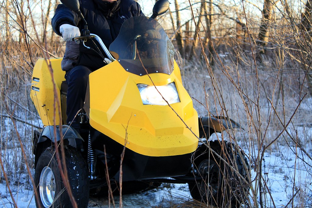 Мини-снегоболотоход Пилигрим